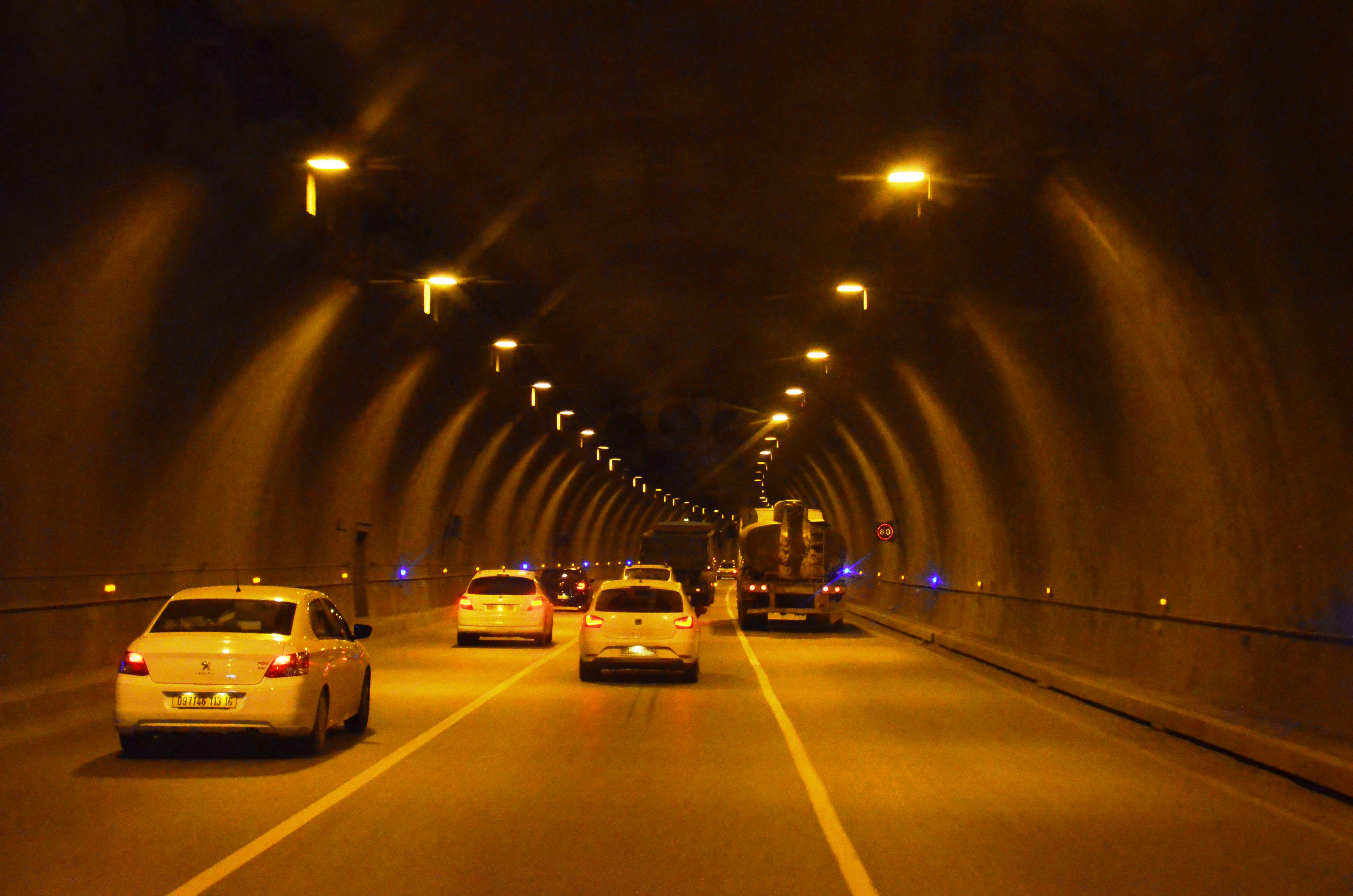 This is an image with the theme "Africa on the Move or Transport" from: Algeria